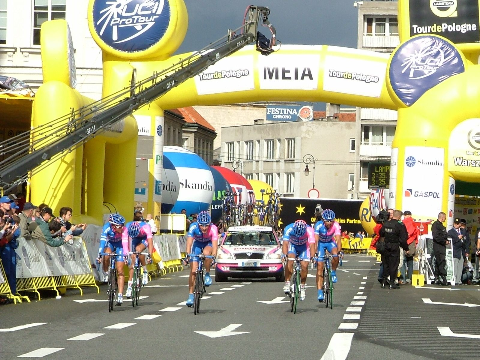 Poland, Warsaw, Tour de Pologne 2007, Stage 1